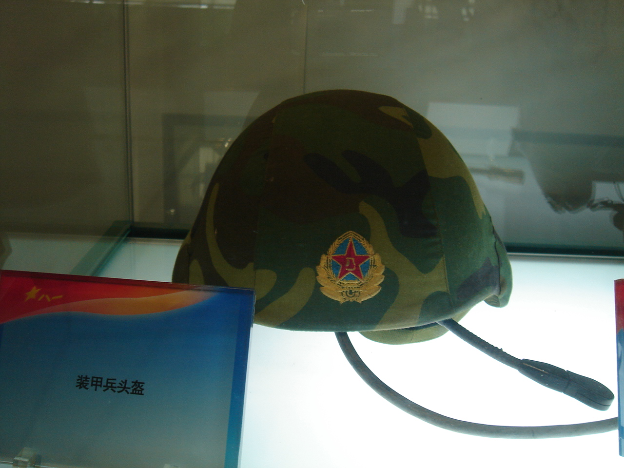 People's Libration Army helmet 中文（中国大陆）: 中国人民解放军装甲兵头盔